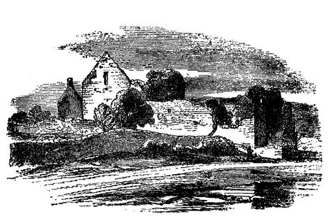 Illustration of the west range of the Augustinian Abbey St. Mary de Portu Patrum at Annaghdown, Co. Galway, Ireland printed in Lough Corrib, its shores and islands: with notices of Lough Mask by Sir William R. Wilde, published 1867